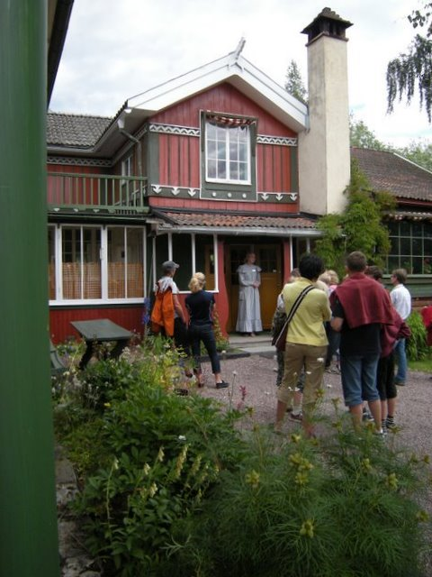 Carl Larsson-gården with main entrance of Lilla Hyttnäs, home of Carl Larsson